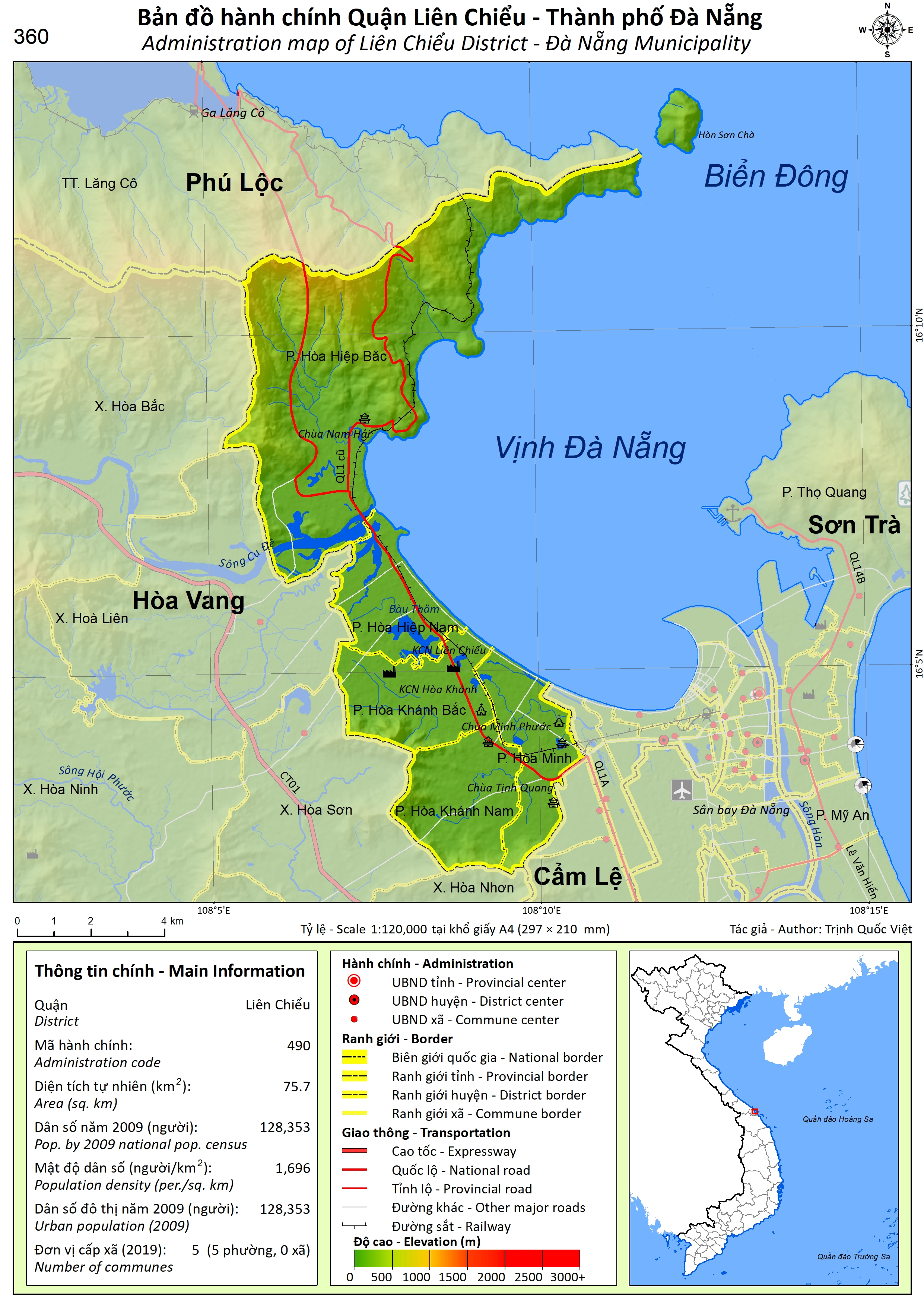 Administration map of Lien Chieu District, Danang City